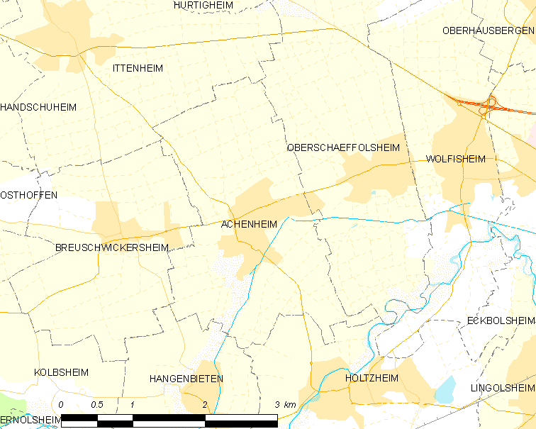 Map of French municipality